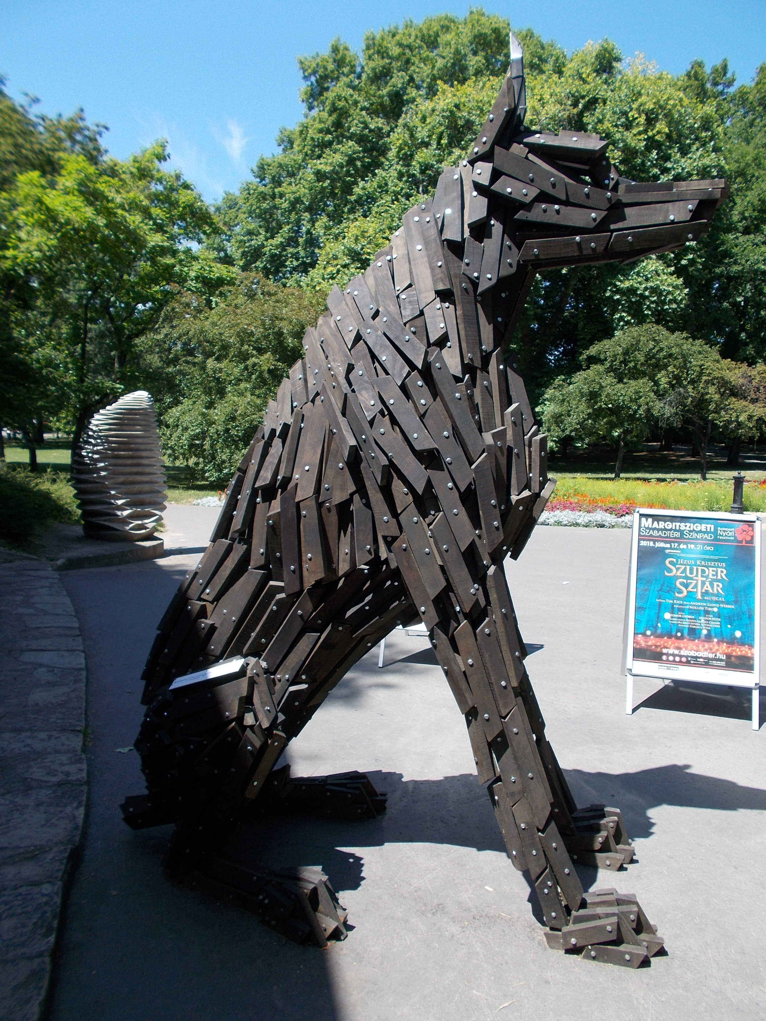 One of the 'Two dogs' and a Wave pattern stone statue (Decorative sculptures, Ferenc Kovács, 1984) at the Margaret Island Open-air theater. - Budapest, Hungary